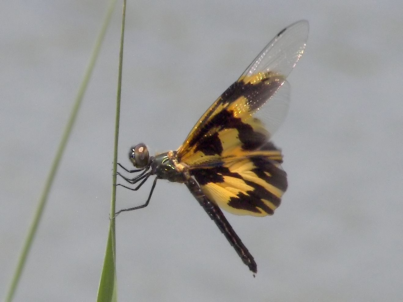 Saw at the wet lands.